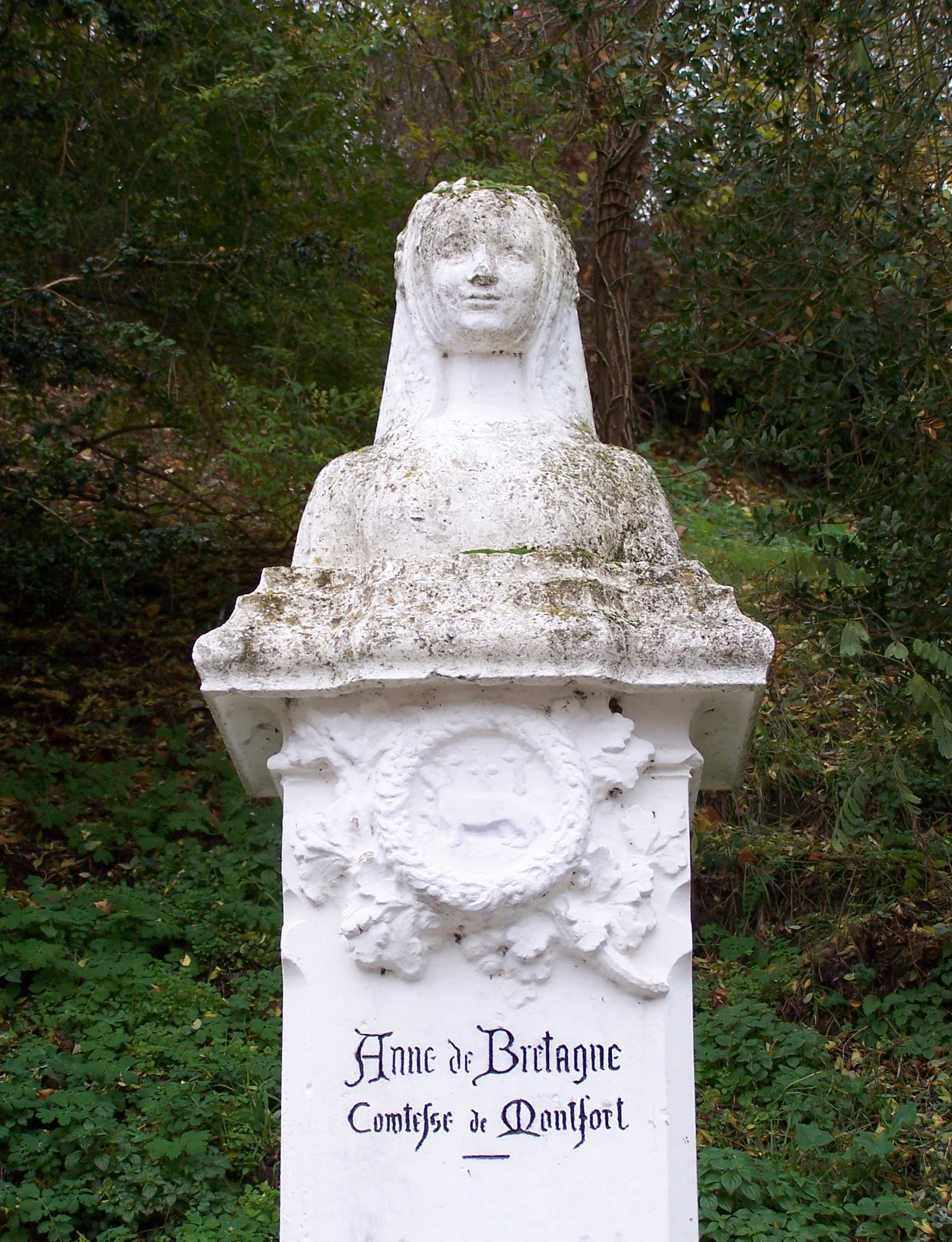 Monument in Rue Maurice Ravel corner Rue Saint-Laurent, Montfort-l'Amaury, Yvelines, France